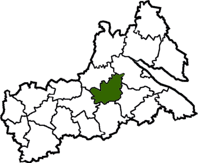 Gorodyschenskyi-Raion map